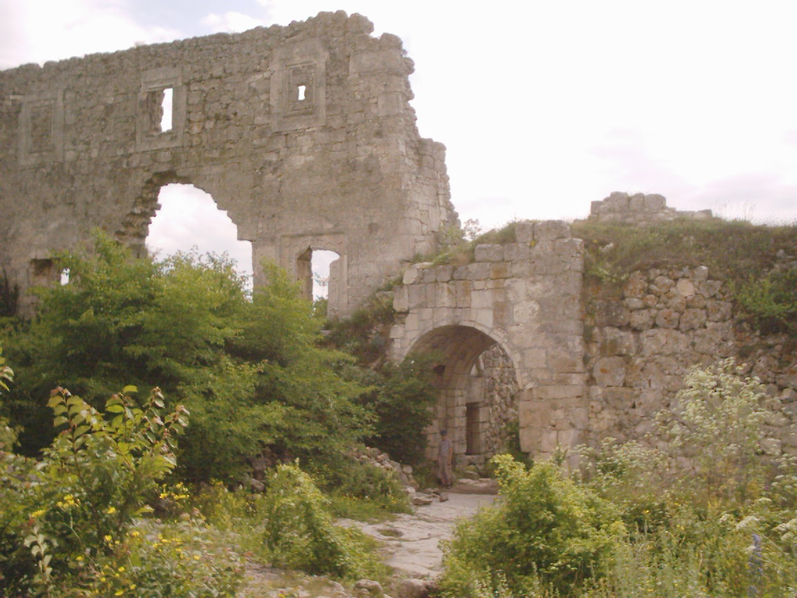 Main citadel of Mangup